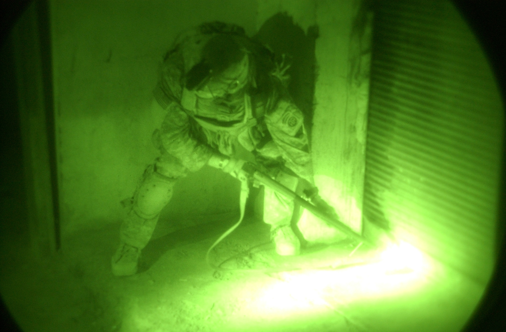 New Ammunition Will Decrease Fragments In Close Urban Environment. U.S. Army Sgt. Christopher Harmon, from Bravo Troop, 5th Squadron, 3rd Battalion, 1st Brigade Combat Team, 73rd Cavalry Regiment, 82nd Airborne Division, executes a shotgun breach of a door lock during a house by house clearance operation in Aksabah, Iraq, Aug. 17, 2007. The Army recently approved a new anti-material cartridge, the M1030. The M1030 is designed as a breaching munition, used for defeating wooden doors, deadbolts, knobs, hinges and padlock hasps. The design of the munition minimizes ricochet hazards currently associated with buckshot breaching and provides a much safer alternative to the Soldier. Photo by Staff Sgt. Martin K. Newton, January 23, 2008